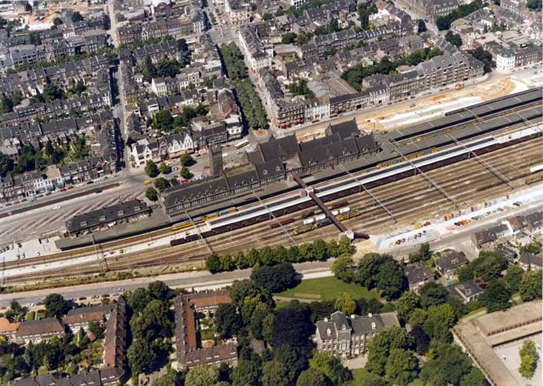 Luchtfoto van het stationsemplacement in Maastricht in 1985. Onderaan de Villa Wyckerveld vóór de verbouwing. Rechtsboven het nieuwe busstation in aanleg.